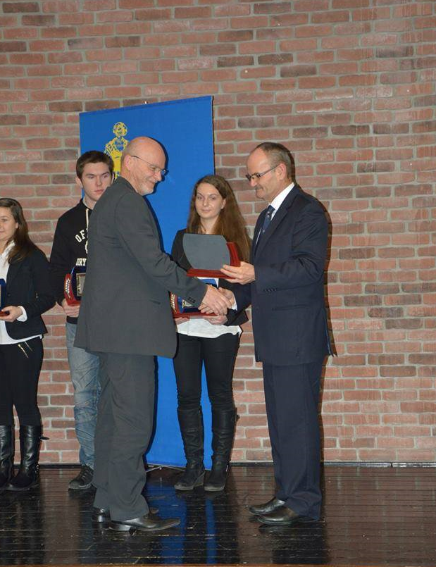 Jože Kolenc, nagrada za najuspešnejše strelsko društvo v Sloveniji